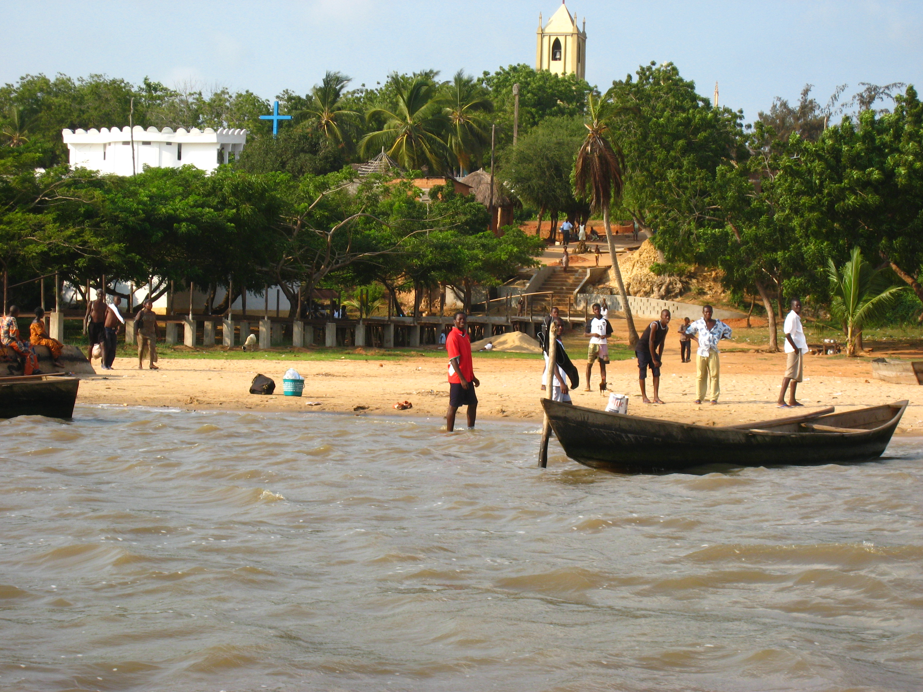 Harbour in Togoville, Togo, 2007-12-02